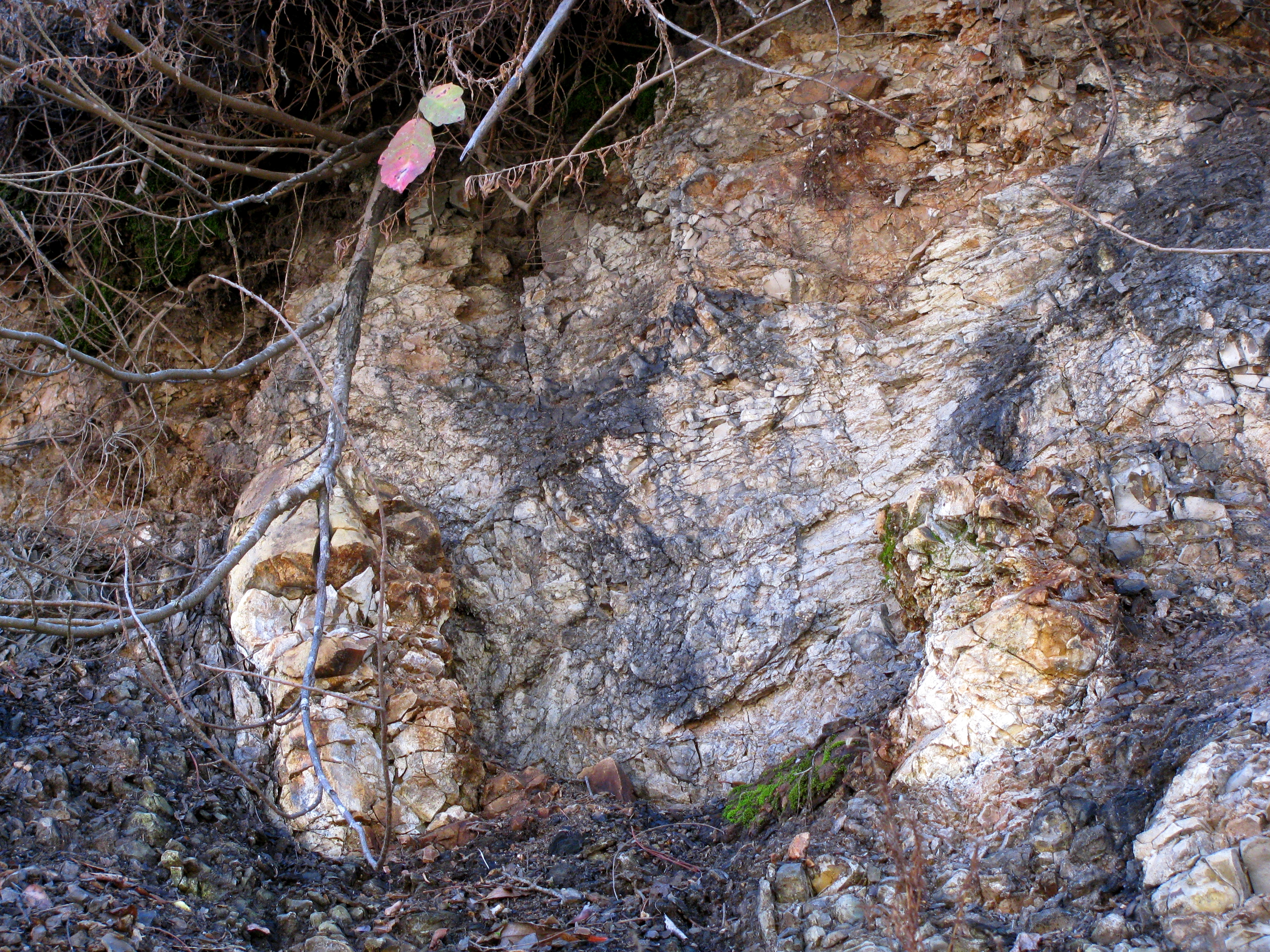 Rincon Formation in context, showing weathered surfice, detritus, and poison oak leaves for scale.